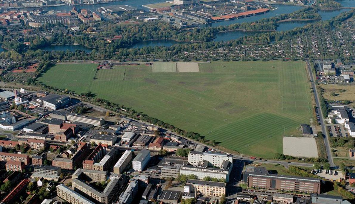 Aerial photo of Kløvermarken seen in direction north. Christianshavn and Copenhagen can be seen in the top of the image. The road on the north side leads in north-eastern direction to former naval base Holmen.